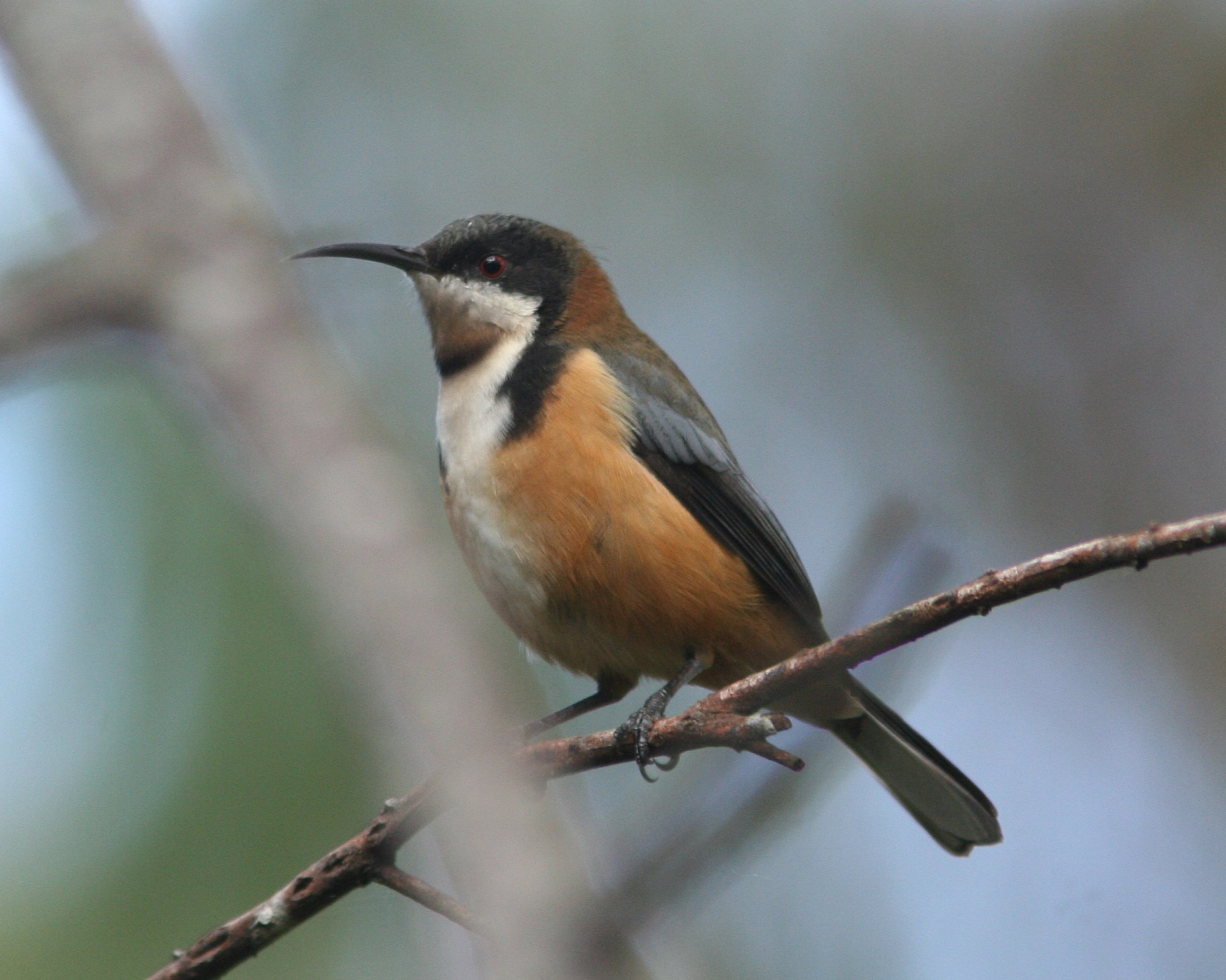 Eastern Spinebill, Acanthorhynchus tenuirostris